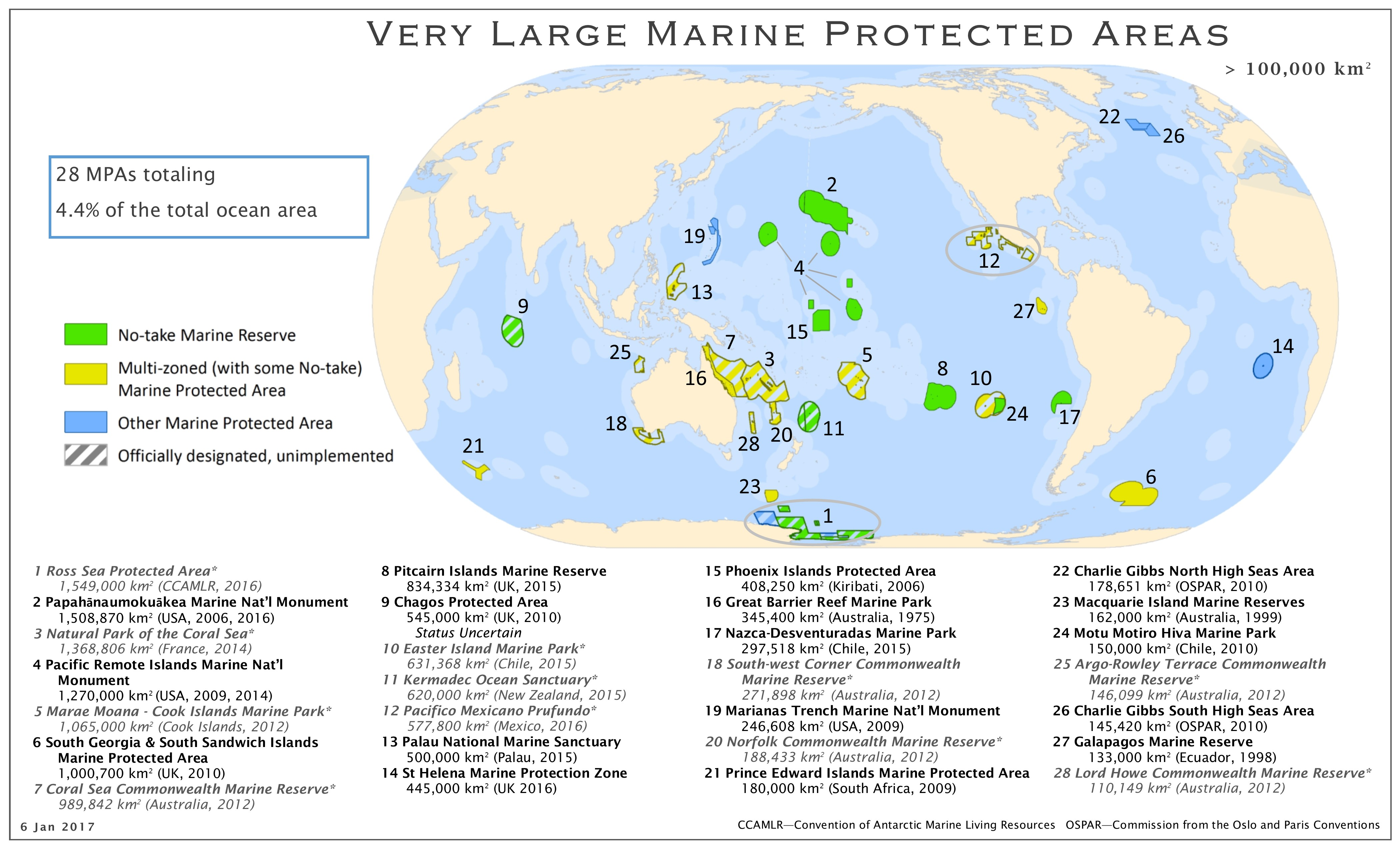 Map of the marine protected areas as of 01/2017